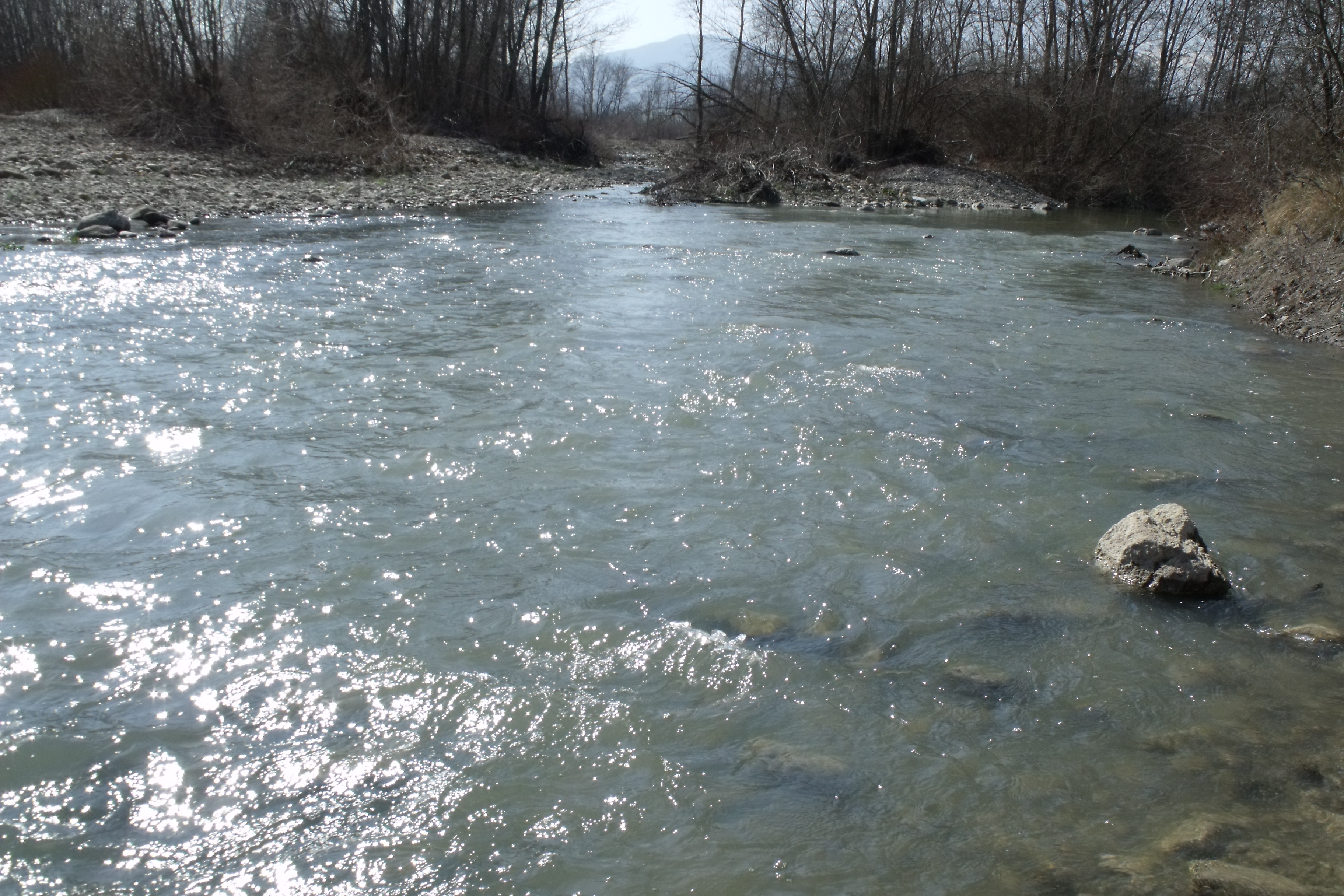 The Paglia River near Ponte a Rigo (San Casciano dei Bagni), Province of Siena, Tuscany, Italy. In the background the Monte Labbro